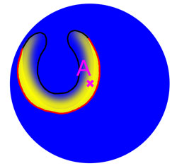 Topological proof of the Jordan curve theorem (4).